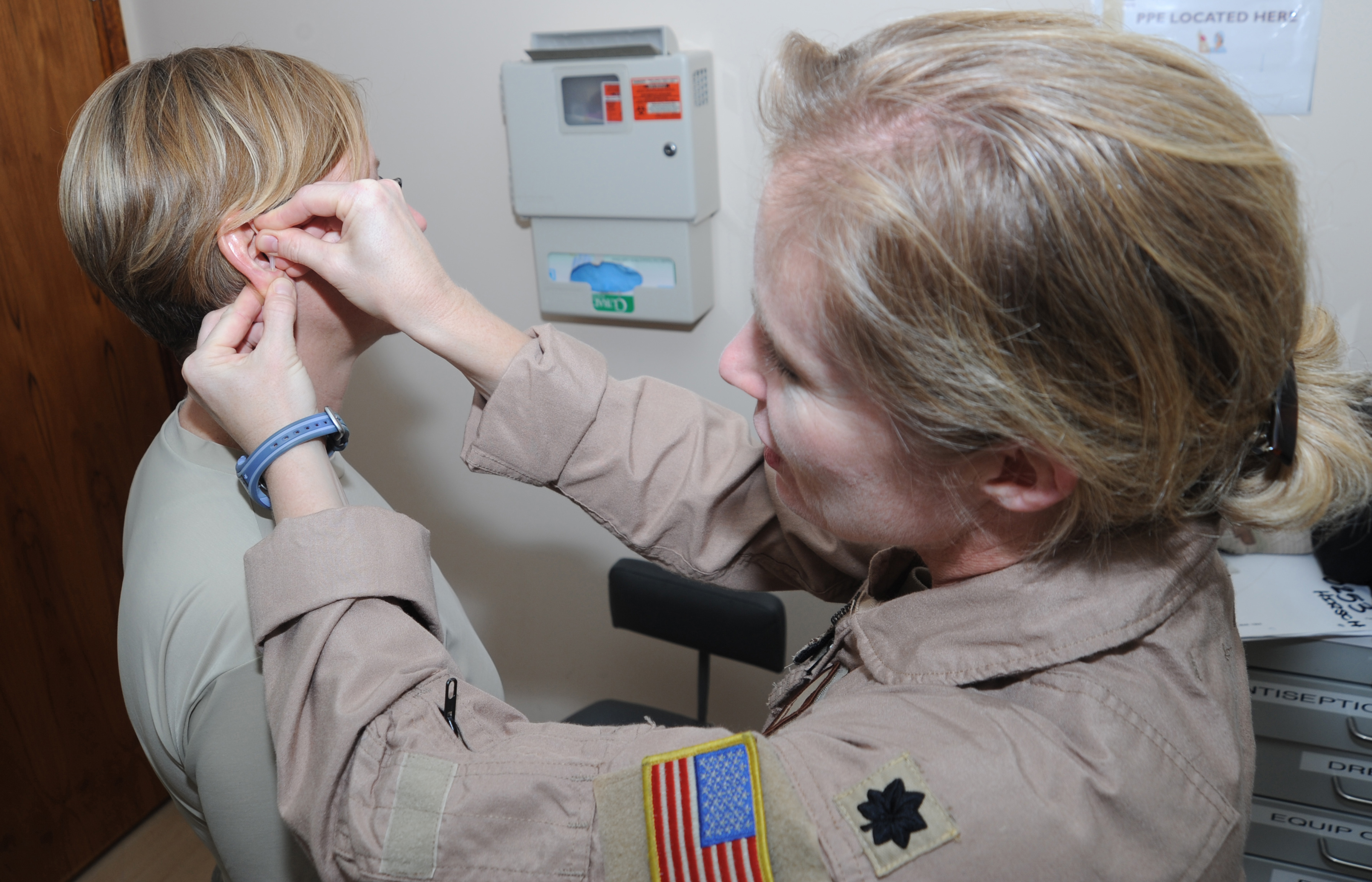 Lt. Col. (Dr.) Darlene Smallman applies acupuncture needles to Maj. Amber Hirsch's ear April 4, 2012. Hirsch suffers from hip pain and has found acupuncture the only treatment that helps her. Smallman, a flight surgeon deployed to the 380th Air Expeditionary Wing from the Pentagon, studied at the Air Force Acupuncture Center on Joint Base Andrews, Md. Hirsch is the wing judge advocate. (U.S. Air Force photo/Staff Sgt. J.G. Buzanowski)